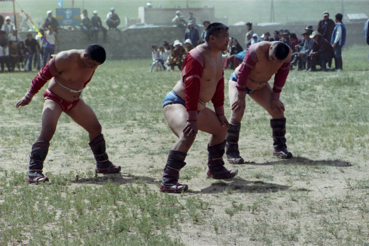 Wrestlers during Naadam national festival in mongolia; location: region between Ulanbaatar and Tsetserleg